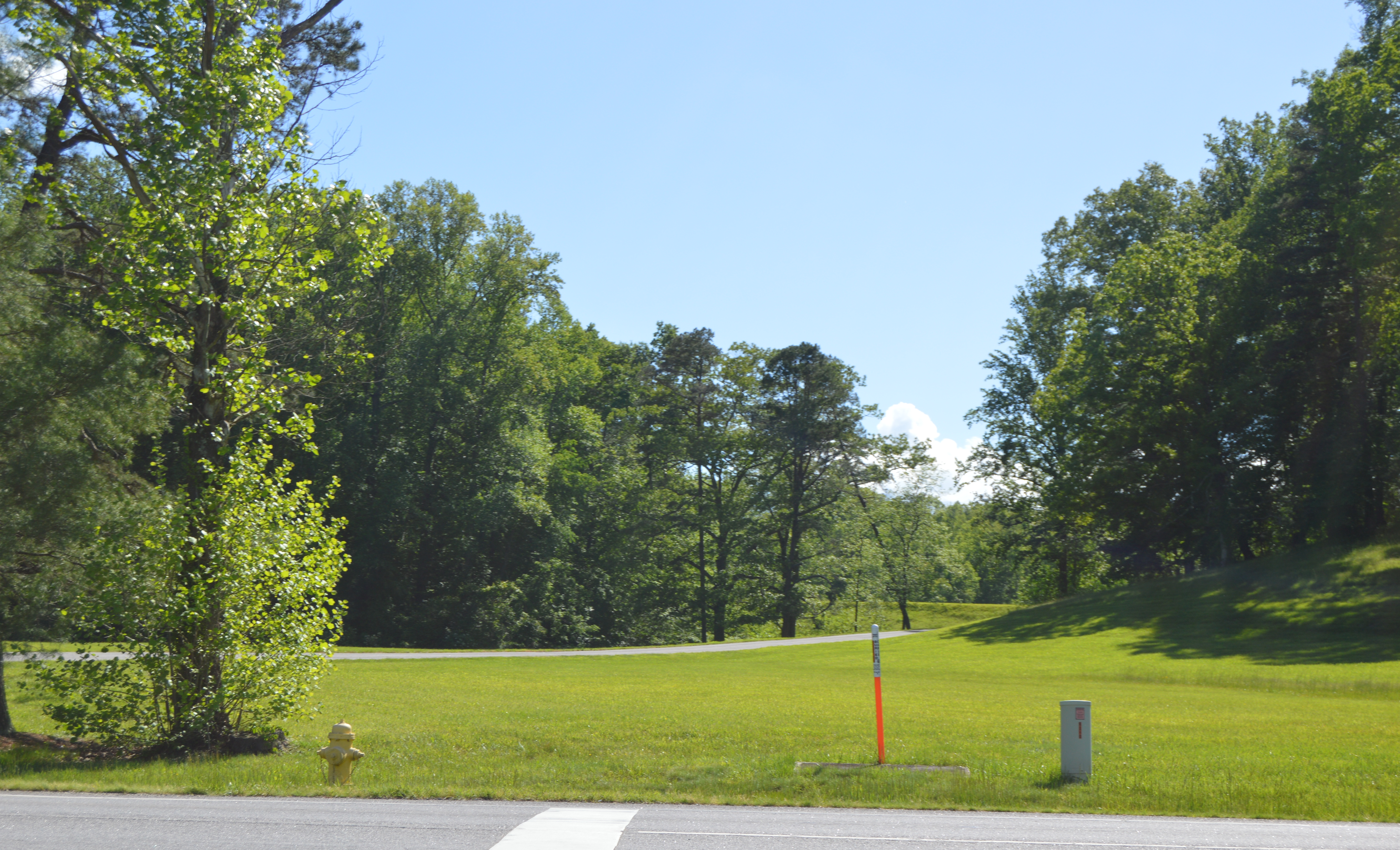 Driveway to Eltham Manor, located at 405 Riverside Drive northwest of Collinsville in Henry County, Virginia, United States. The house is listed on the National Register of Historic Places.